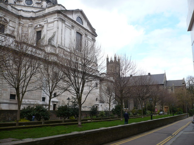 Cottage Place from Brompton Road In the foreground is the side of the London Oratory, popularly known as the Brompton Oratory, and in the background is the Holy Trinity Church, Brompton.